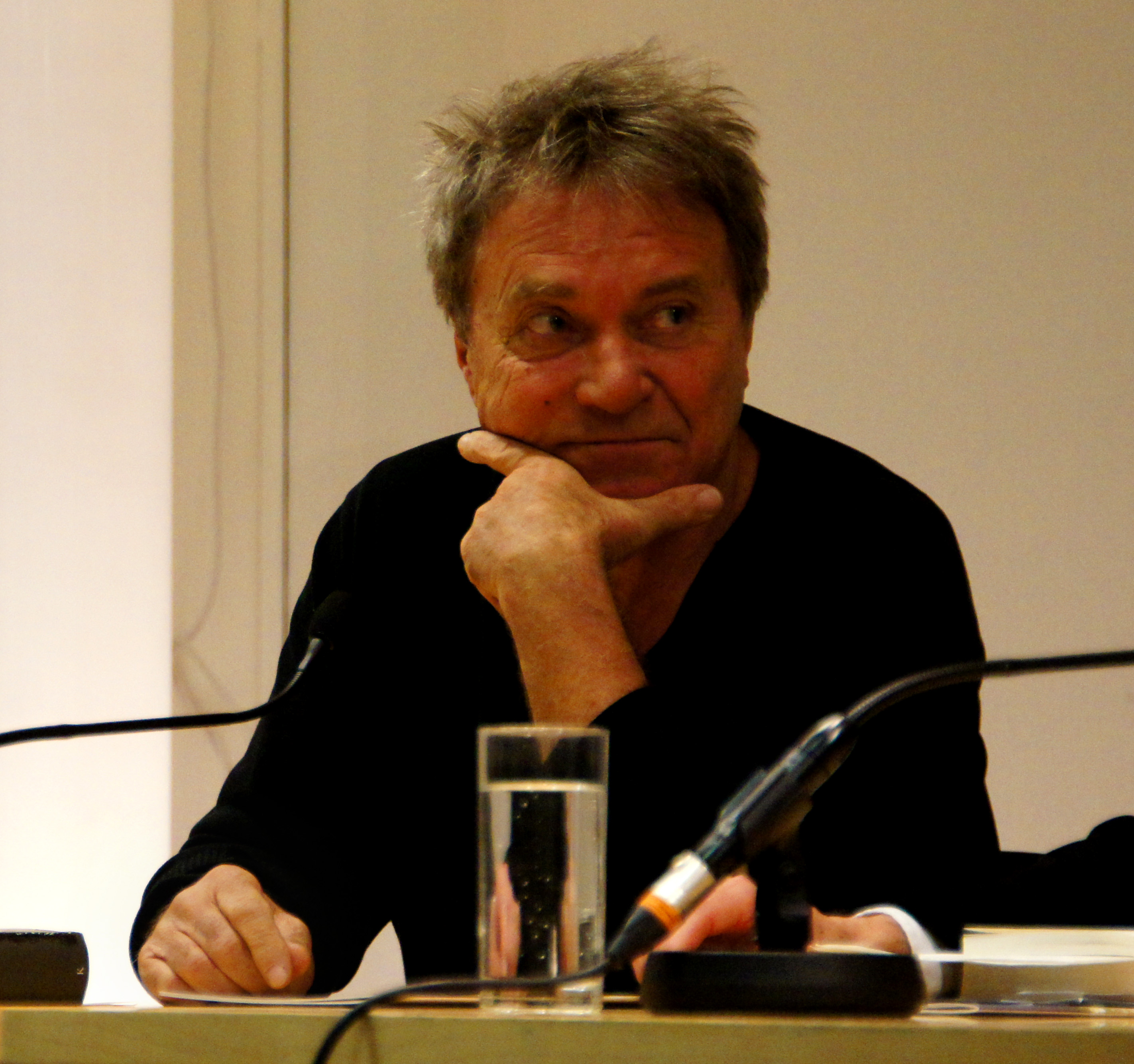 See file name. The author, L. Norfolk, was presented by Austrian journalist Gabi Madeja. German version of the novel 'John Saturnall's Feast' was read by Wolfram Berger.